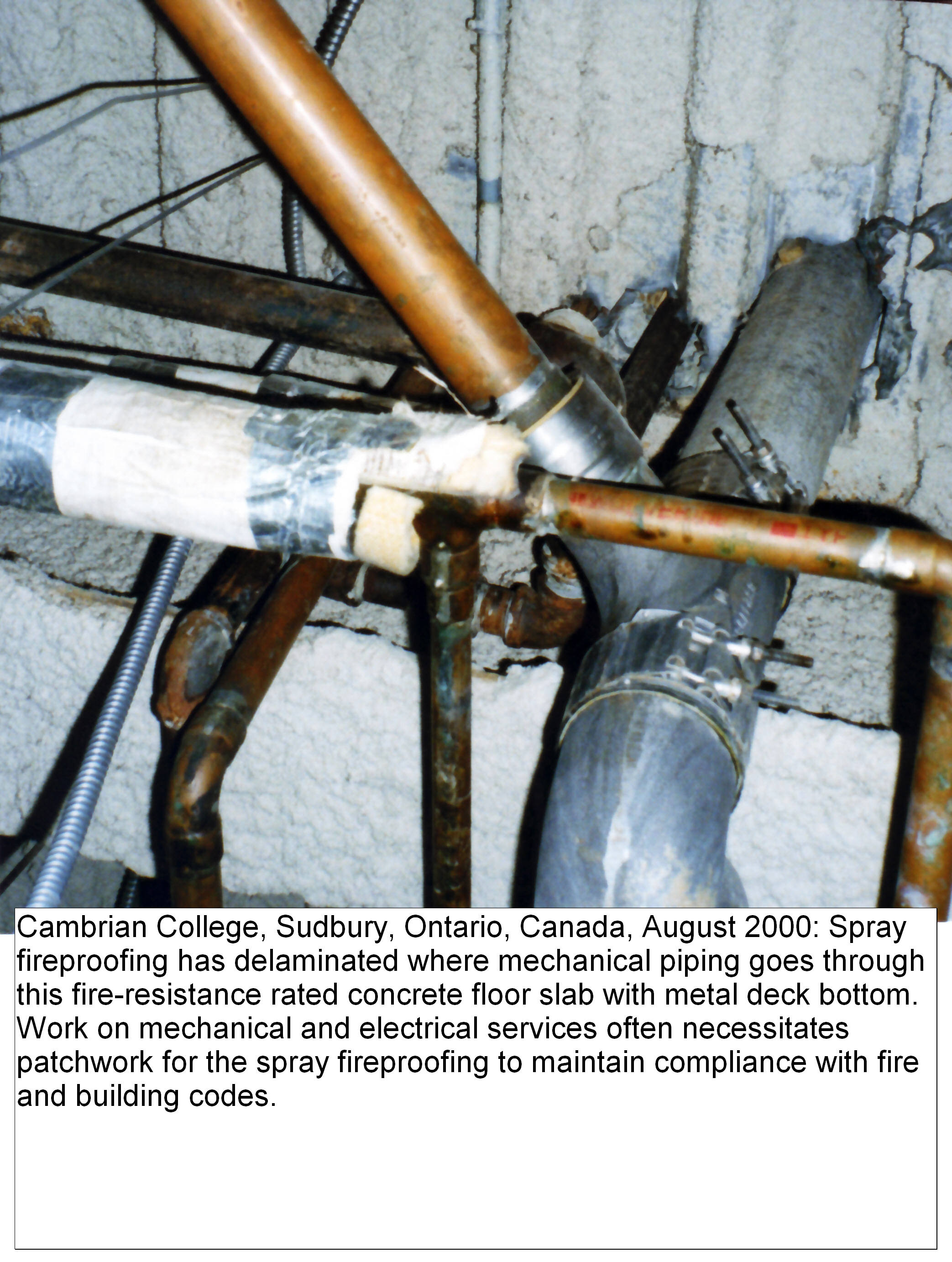 Delaminated spray fireproofing at firestop at Cambrian College, Greater Sudbury, Ontario, Canada